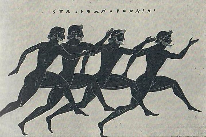 Sprinters. A racing scene from a Panathenaic amphora. Sixth Century.